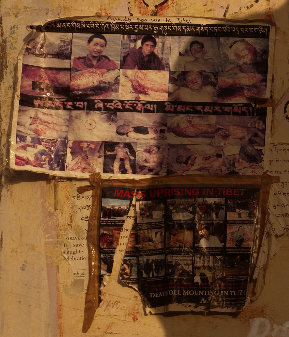 Film poster of the documentary "When The Dragon Swallowed The Sun" by Dirk Simon